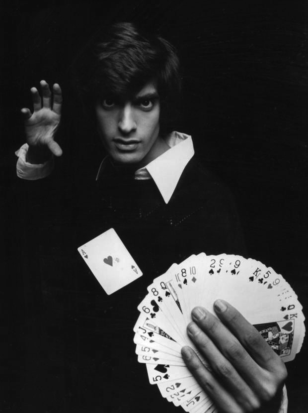 Publicity photo of David Copperfield from the television special The Magic of ABC Starring David Copperfield.